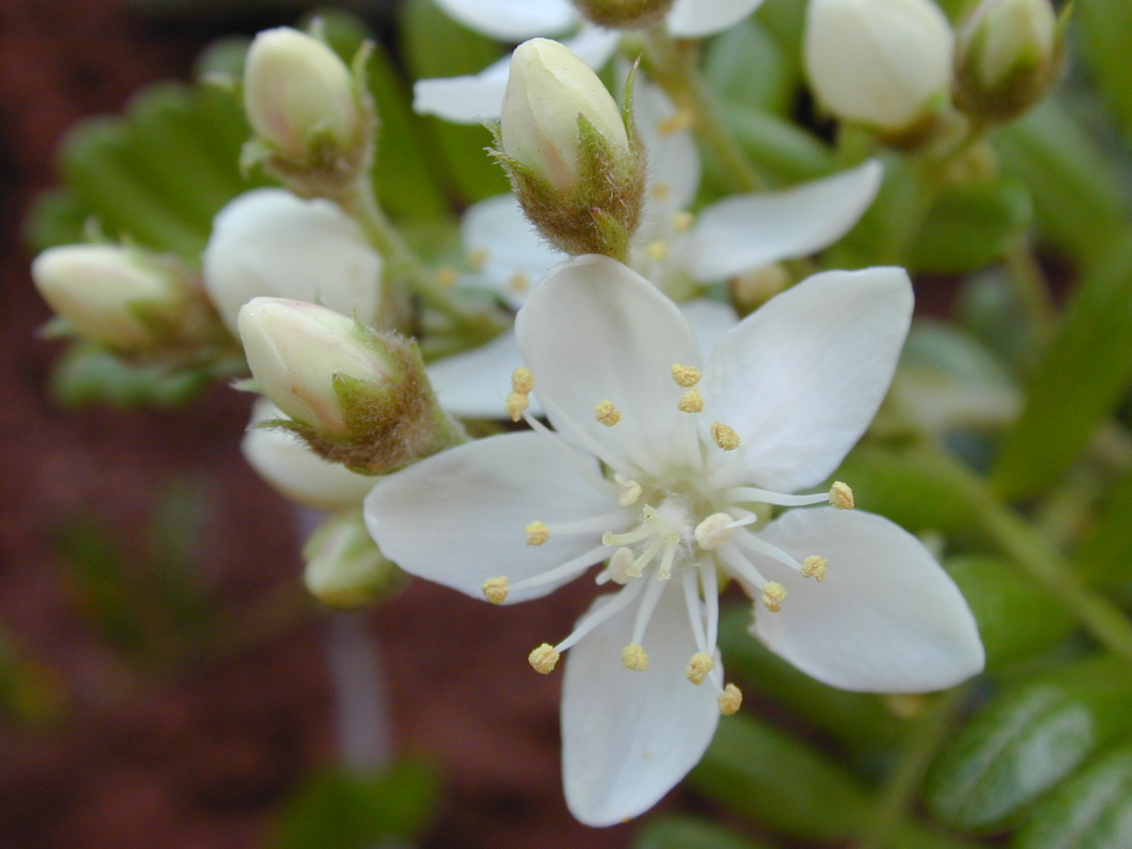 Osteomeles anthyllidifolia (flower). Location: Maui, Makawao